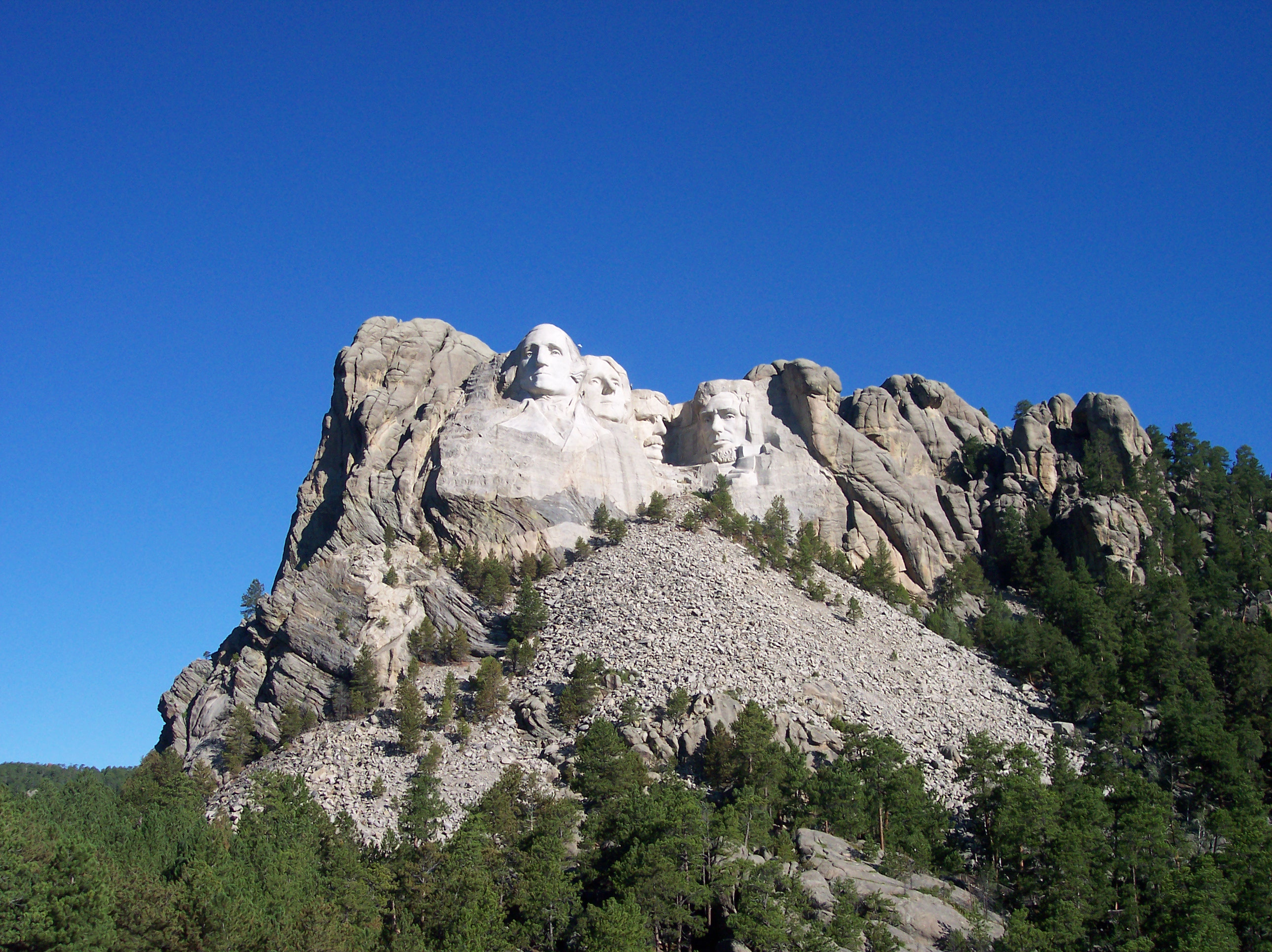 Mt Rushmore, 07/27/2005. Released into the public domain by the photographer, Colin Faulkingham.